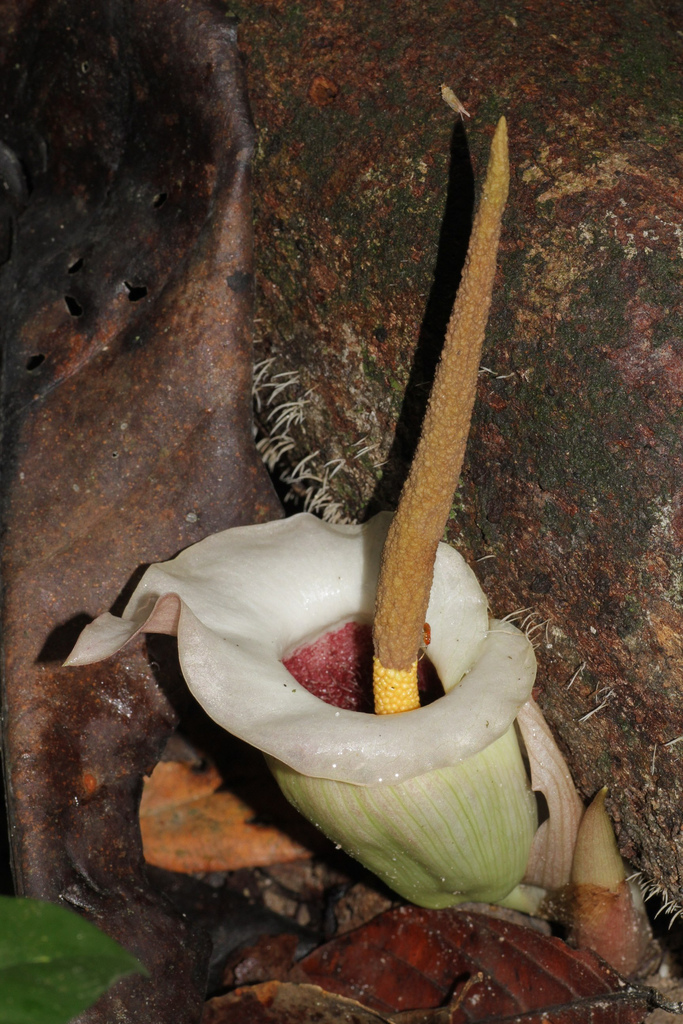 Amorphophallus barthlottii Ittenb. & Lobin, 1997 (Araceae). Taï National Park, Ivory Coast